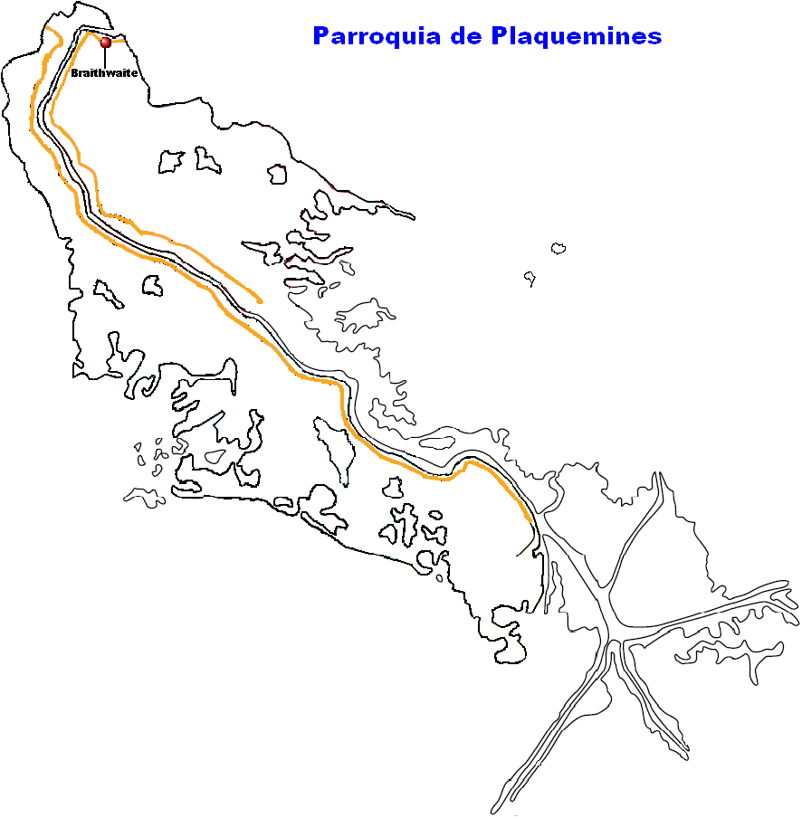 Braithwaite Map Locator